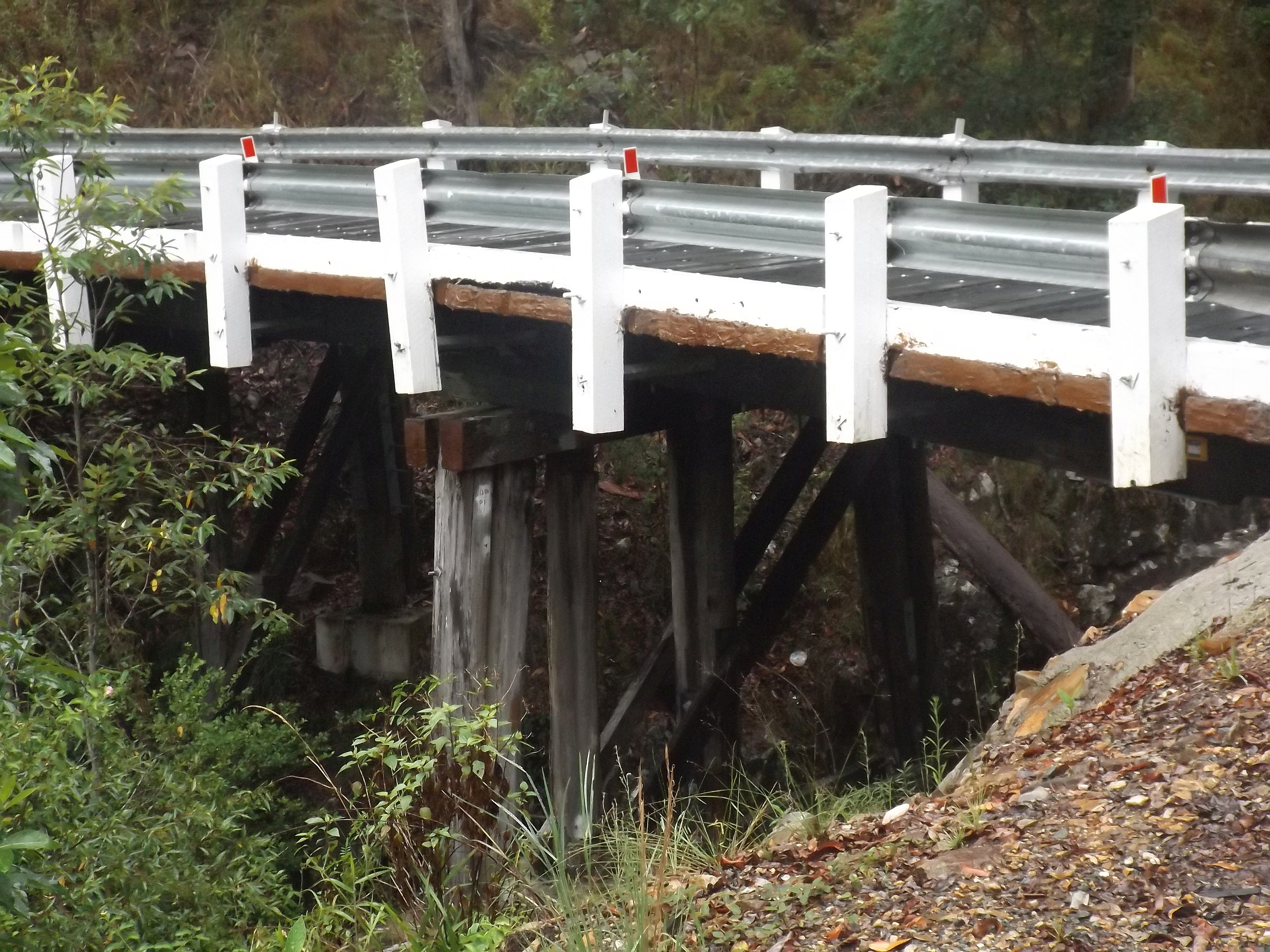 Photo of the lower wooden bridge along Springbrook Road, City of Gold Coast, Springbrook, Queensland, Australia.